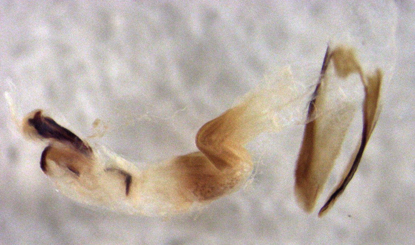 Saphobius inflatipes, internal sac dissected out of aedeagus